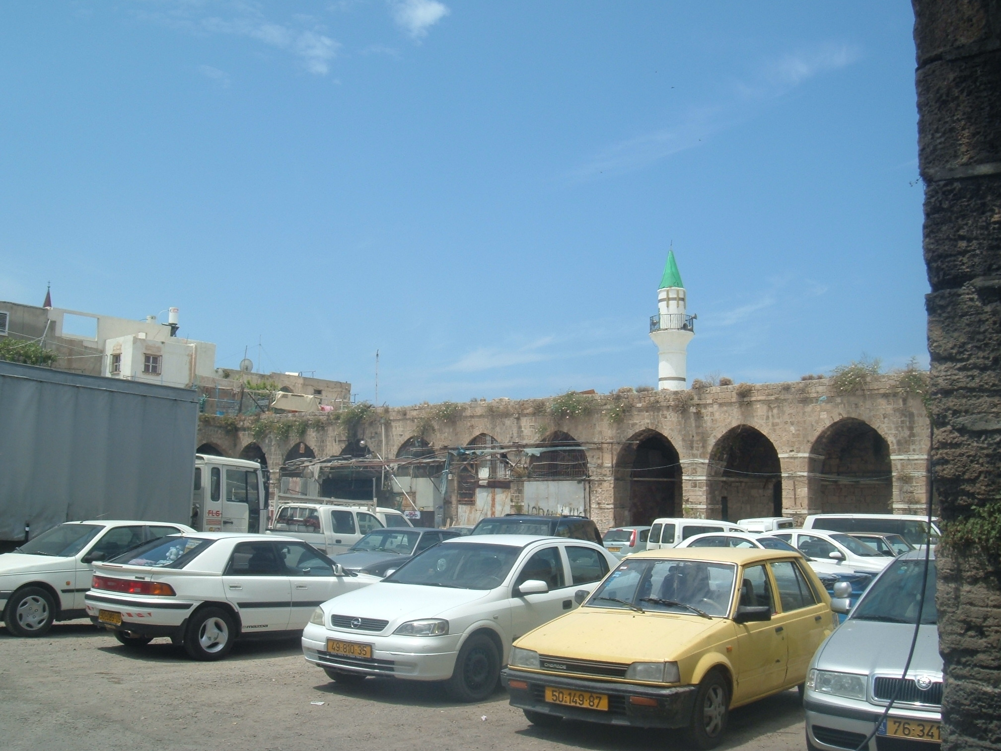 inside Khan el schwarade acre Israel חאן אל שוורדה, עכו, מבט מבפנים